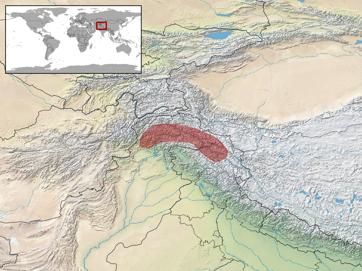 geographic distribution of Cyrtopodion stoliczkai (Native: India; Pakistan)